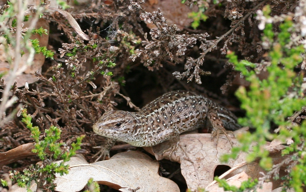 Lacerta_agilis 5 June 2006 Ermelo, the Netherlands